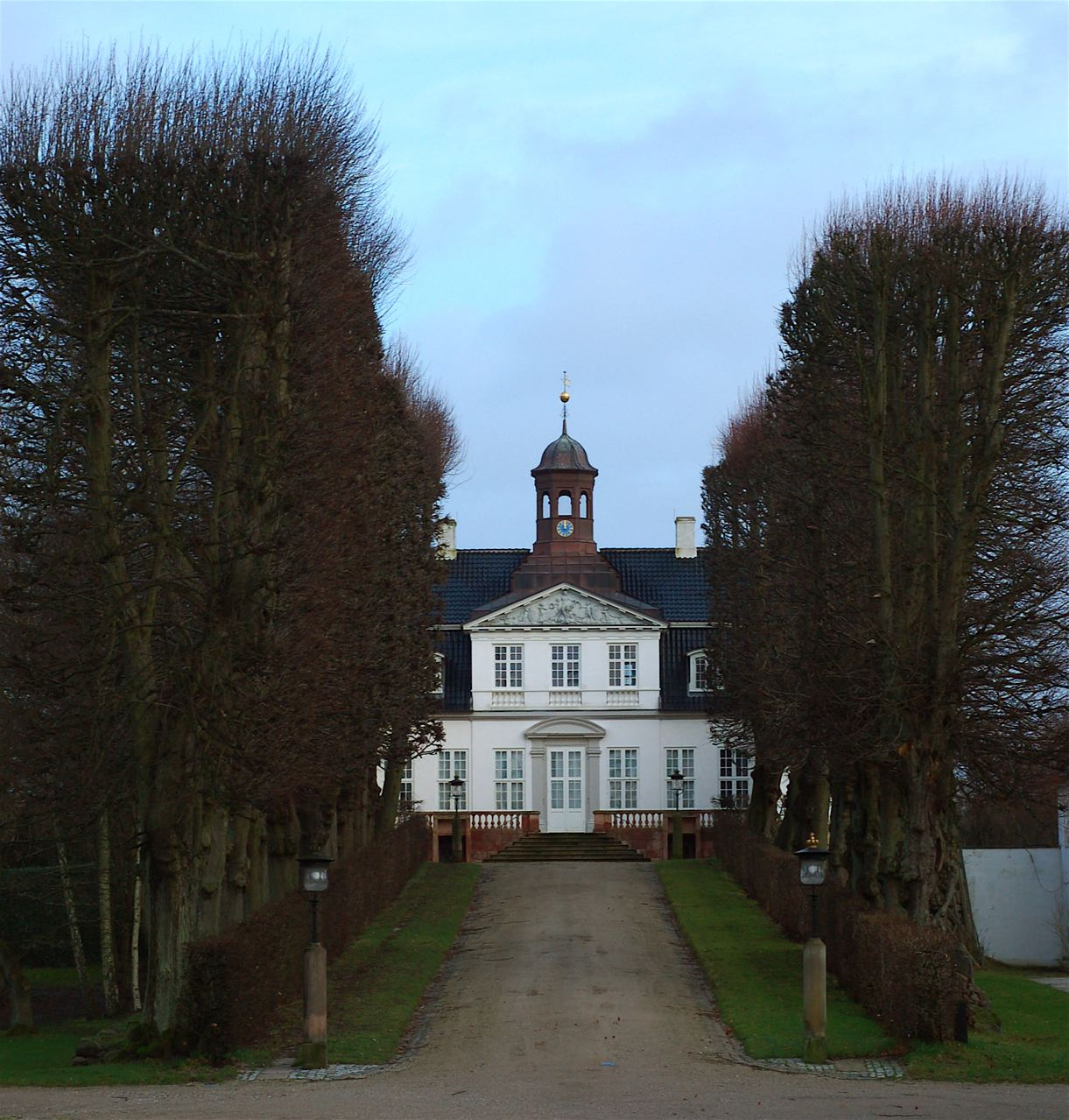 View of Sorgenfri Palace, as residence of the Danish monarch.